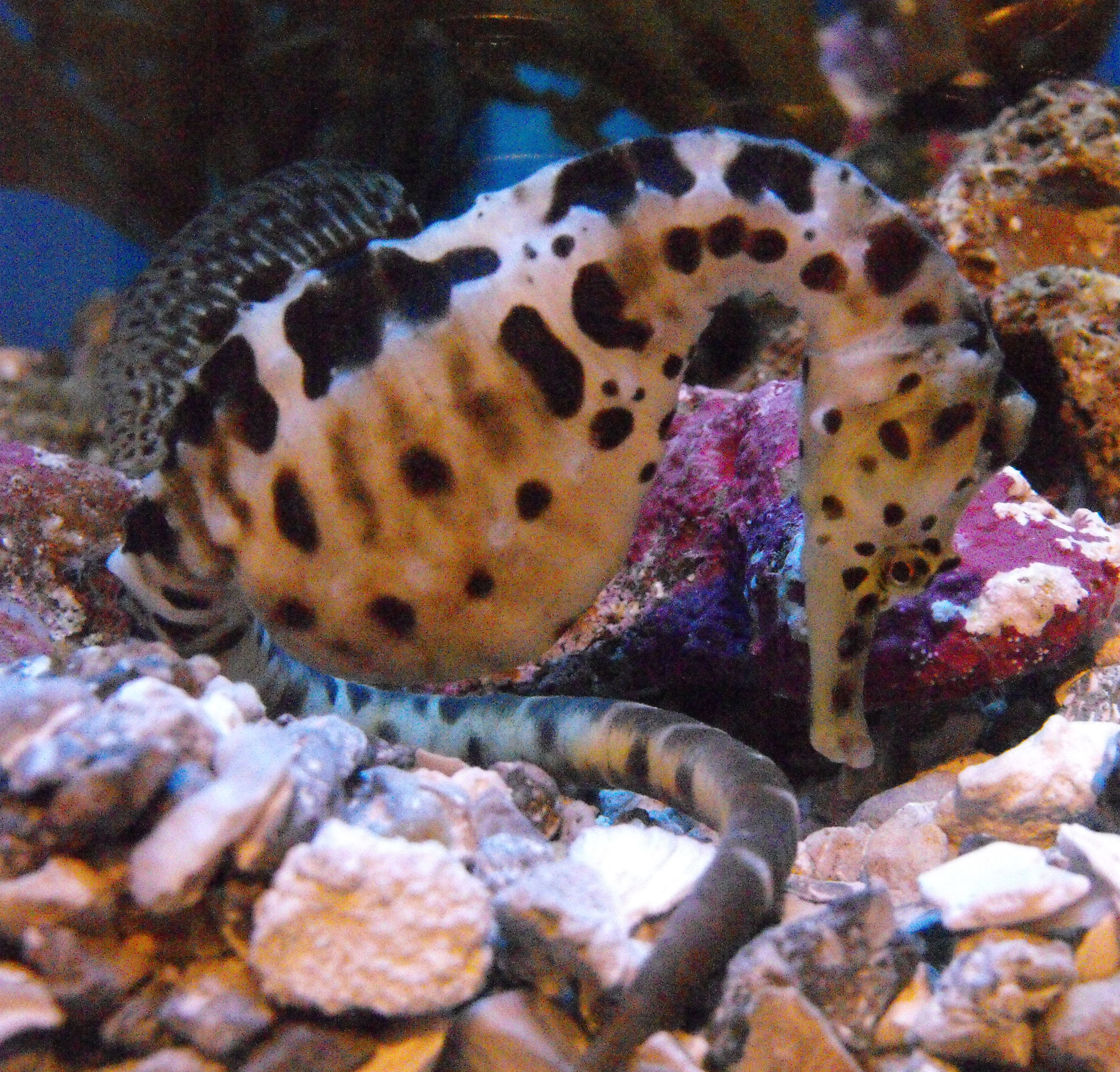 Hippocampus abdominalis at the Birch Aquarium, San Diego, California, USA.